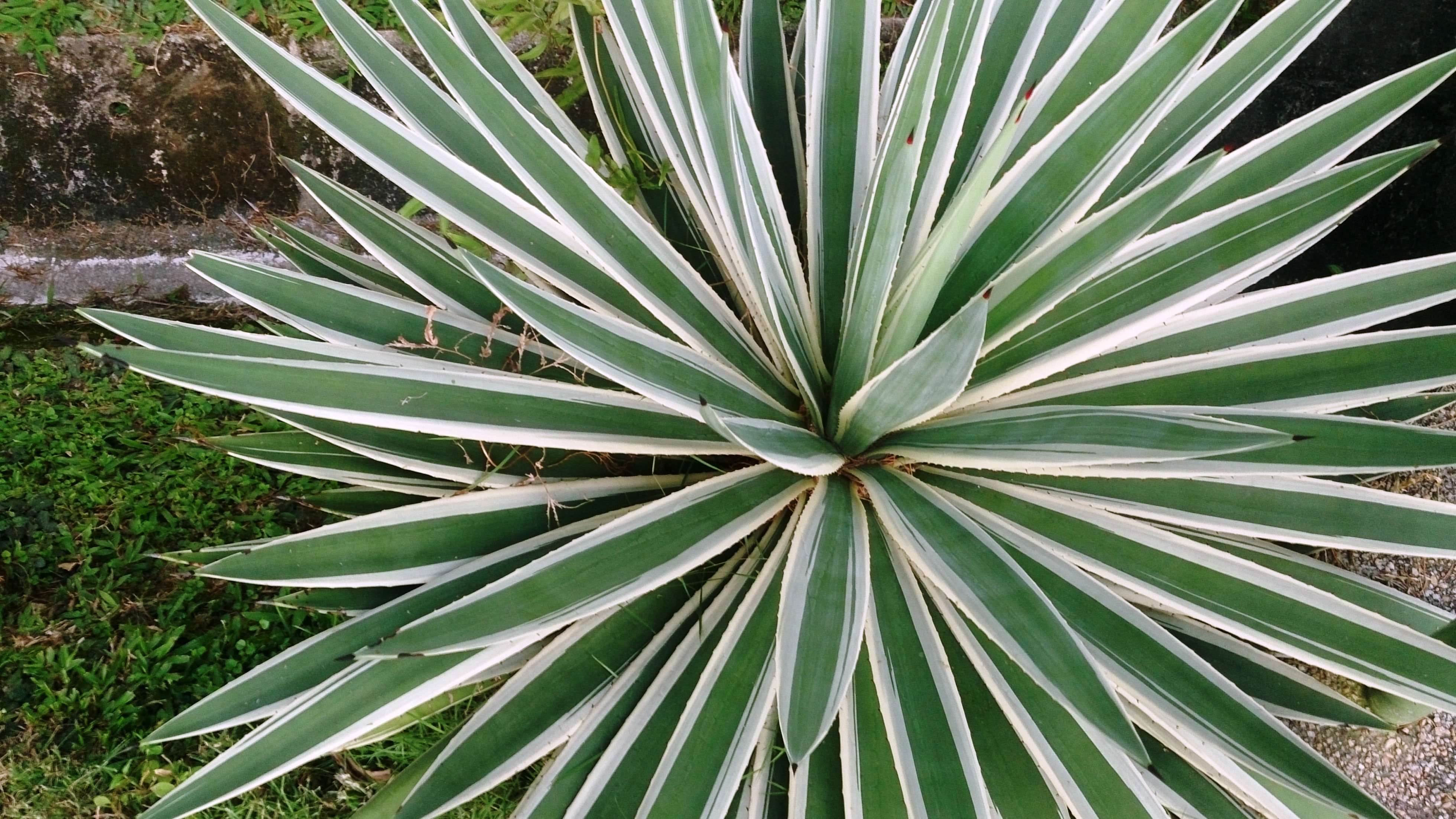 Agave angustifolia 'Marginata'. Common names: Narrowleaf Agave, Narrowleaf Century Plant, Variegated Caribbean Agave, Variegated Narrowleaf Century Plant. 银边龙舌兰 (Chinese)